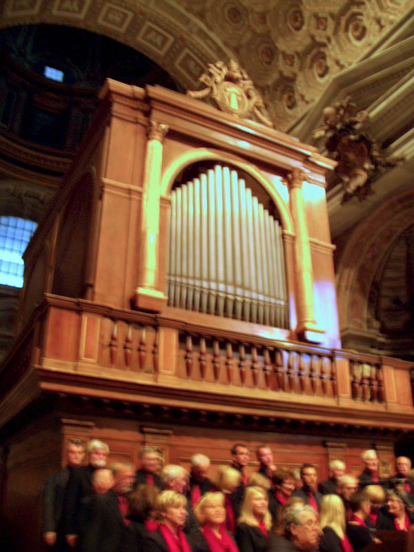 j